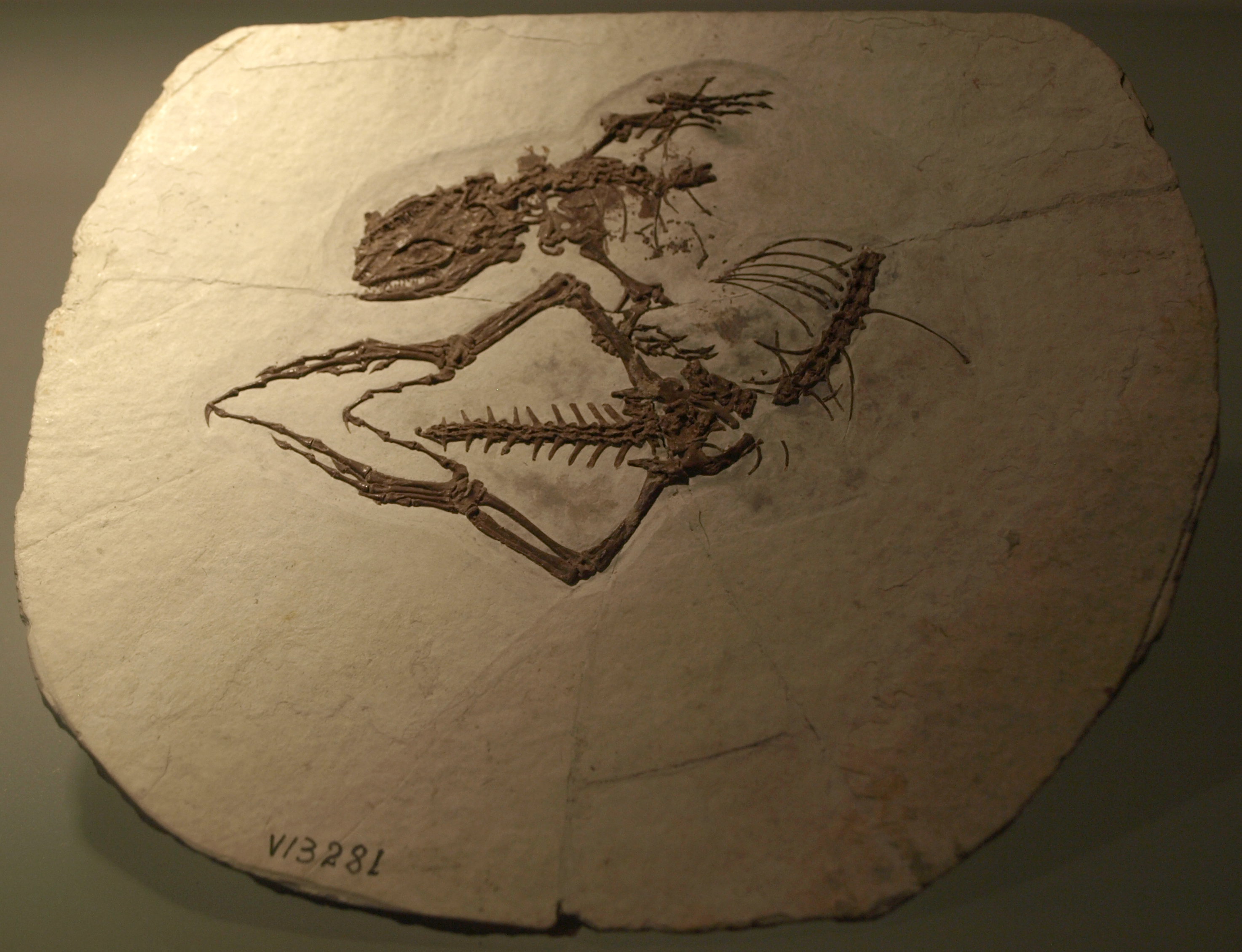 A specimen of Dalinghesaurus longidigitus, on display at the Paleozoological Museum of China.